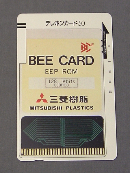 Mitsubishi Plastics BeeCard style telephone card.